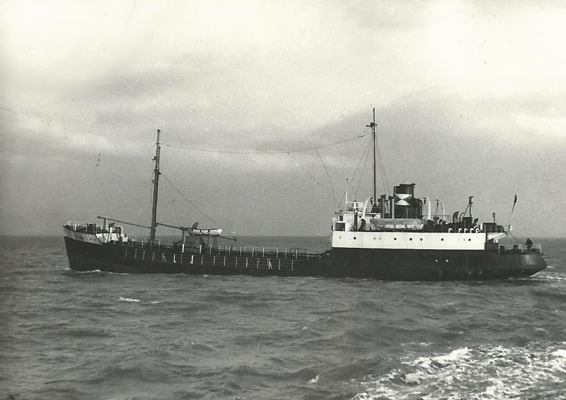 F T Everard & Sons coastal tanker "Alchymist", steam reciprocating engine, triple expansion, 813 tons gross, 1,220 tons dwt, built 1945. Scanned photograph taken with a Kowa SET camera from the Swansea Pilot Cutter "Seamark".